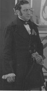 Francisco Bastardi- actor